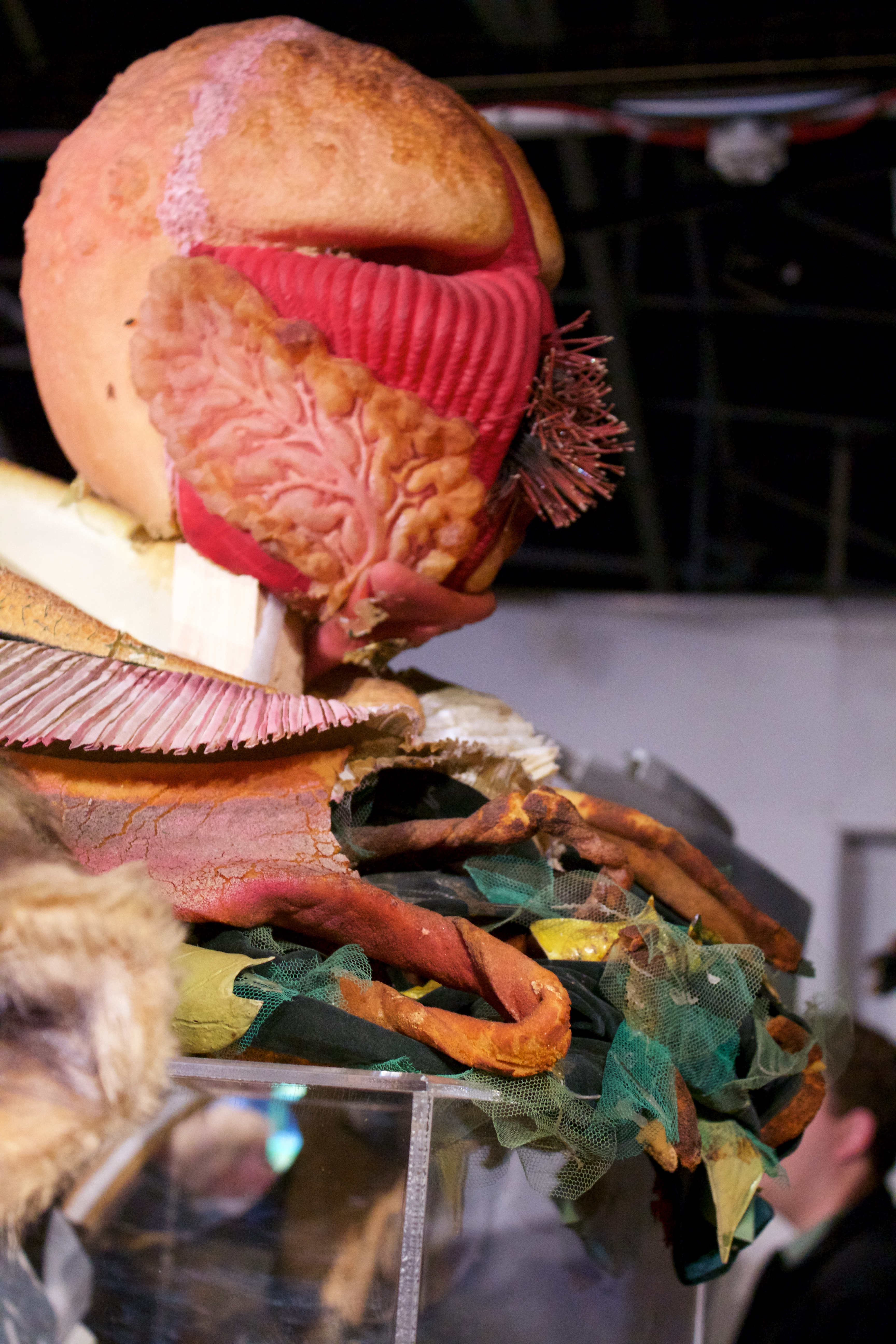 IMG_8557 Doctor Who Experience series 10 Vervoid